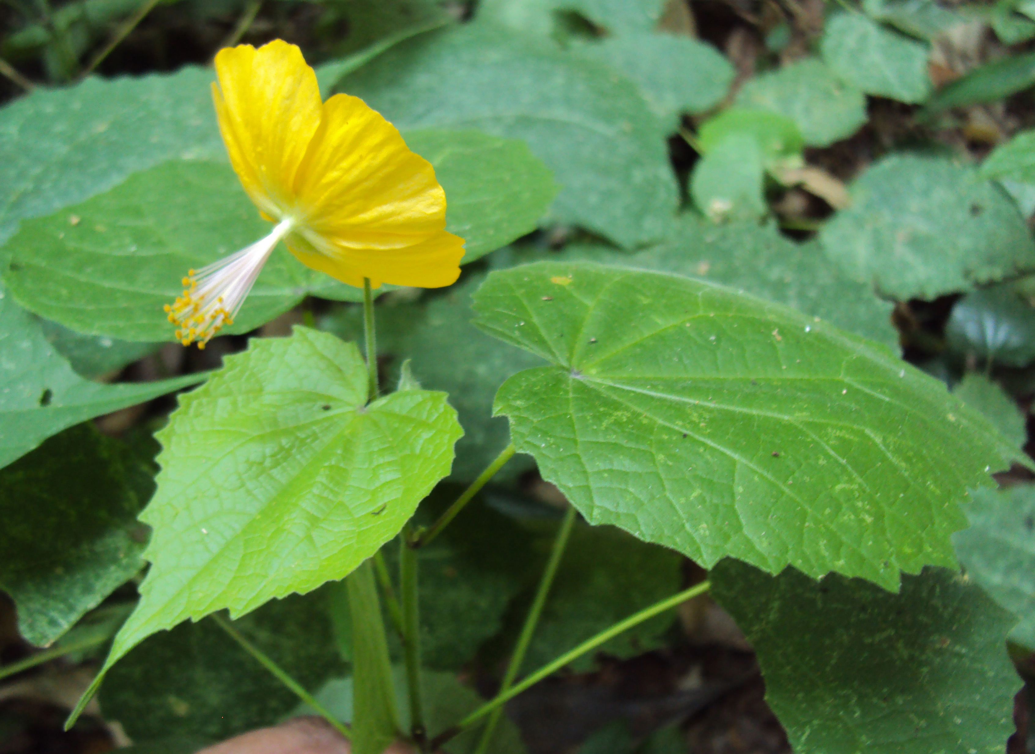 Abutilon persicum